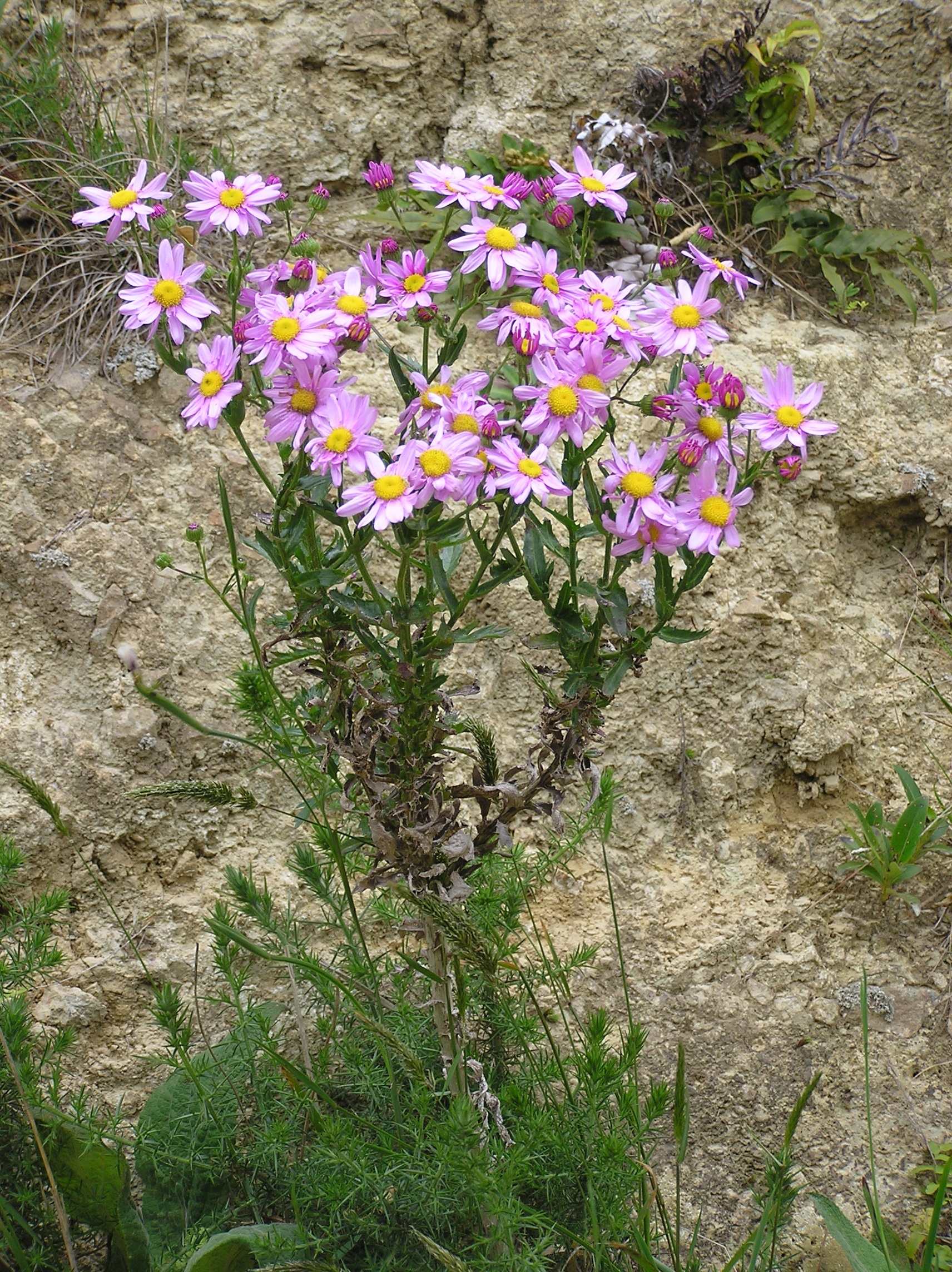 Mauve/purple flower with yellow centre. A South African plant commonly called 'Holly leaved senecio' and sometimes 'Pink ragwort' in New Zealand. It grows in cleared areas without shade, common along roadside embankments etc, slightly prickly holly shaped leaves, pink/mauve daisy flowers.